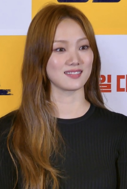 Lee at Miss & Mrs. Cops press conference on April 30, 2019.